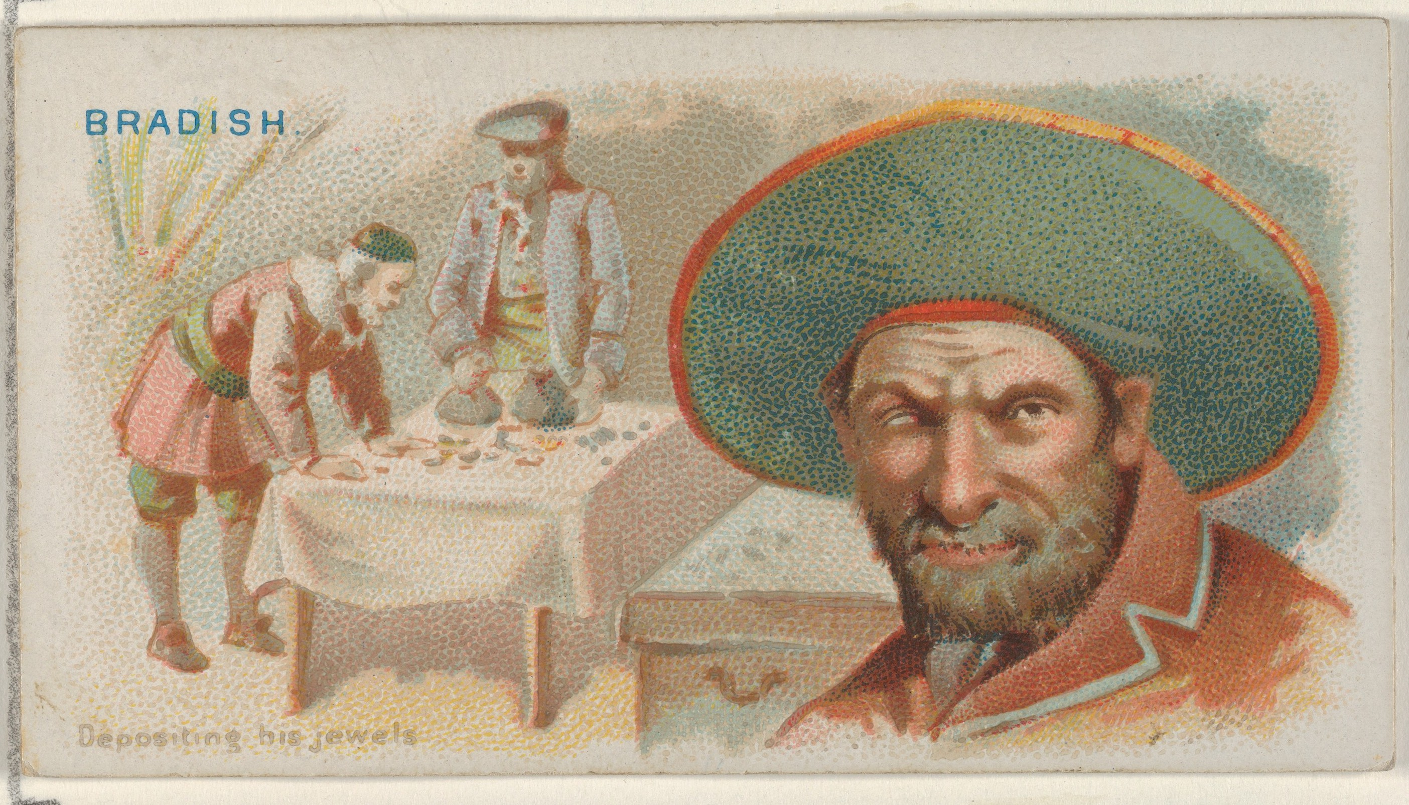 Print; Prints